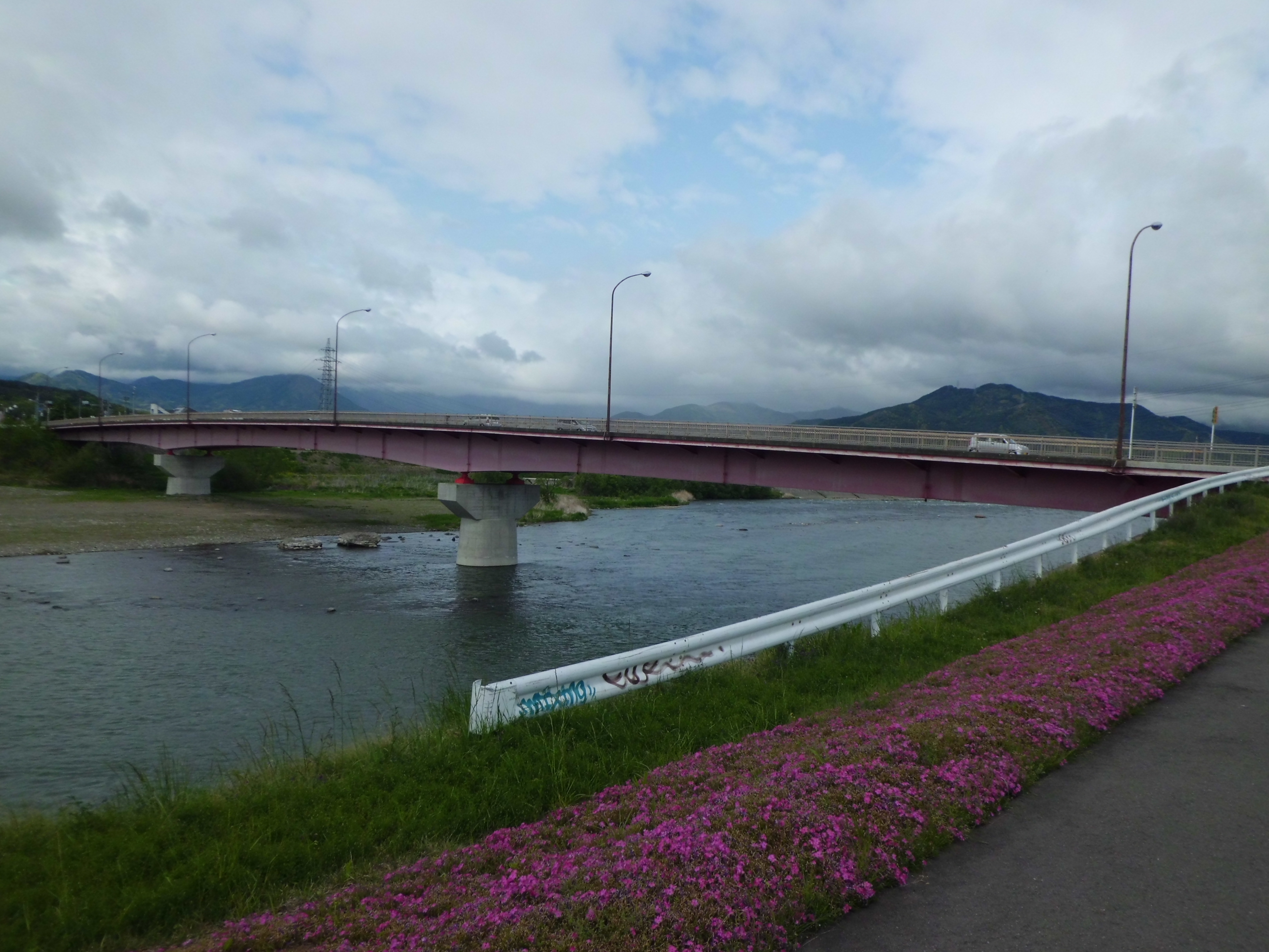 Ueda Brigde on Chikuma River. Looking the downstream direction from the northern bank.